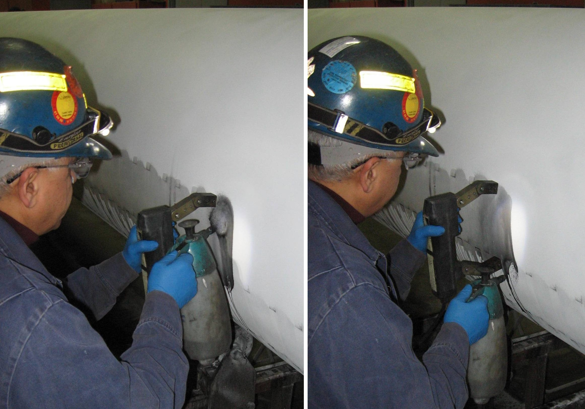 A technician performs magnetic-particle inspection (MPI) on a pipeline to check for stress corrosion cracking. The technique used here involves black particles in a wet suspension sprayed onto a surface prepared with white contrast paint, a technique known in the trade as "black and white" MPI. In the left picture the technician is holding a magnetic yoke (horseshoe-type electromagnet) against the pipe while spraying the liquid onto the magnetized area between the poles. In the right picture the technician watches the liquid flow while checking for indications of cracking, which would appear as small black lines. No indications of cracking appear in this picture; the only marks are the 'footprints' of the magnetic yoke and drip marks. In these pictures, the pipe is sitting on a steel support in a shop after being removed from service for testing.